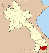 Map of Laos highlighting the province Attapu.